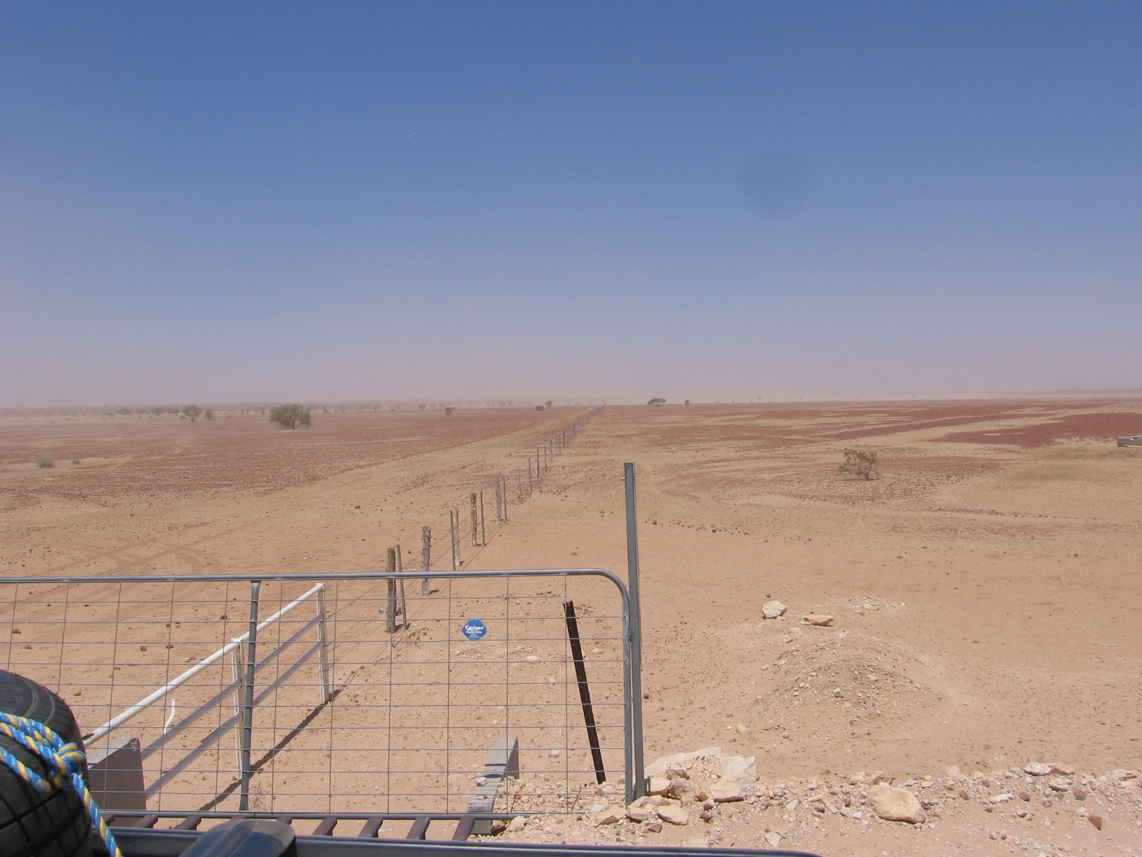 Fence in Australia to prevent rabbit spread